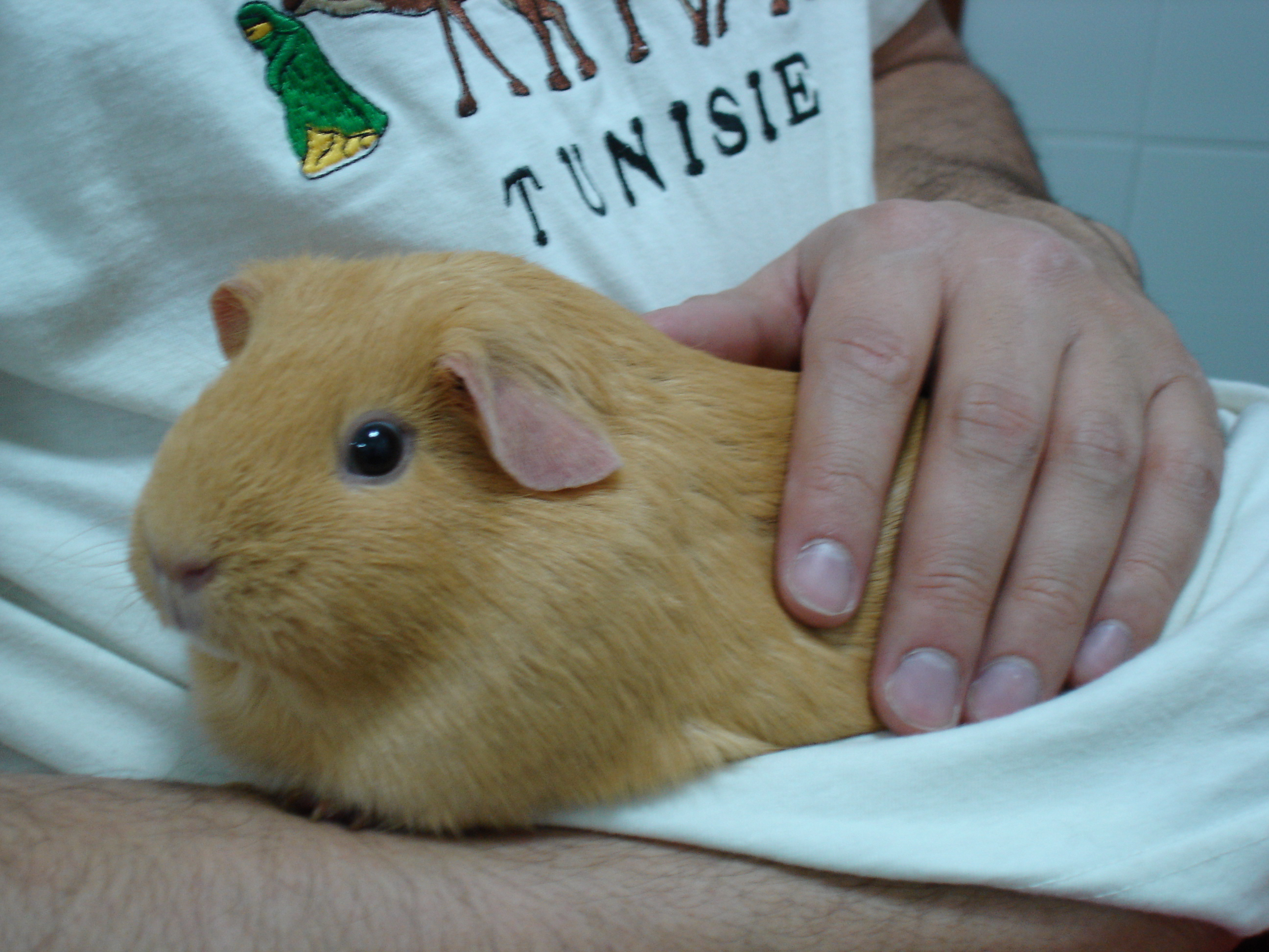 A Guinea pig (Cavia porcellus).